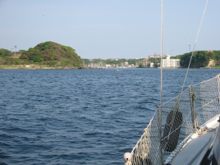 Moroiso inlet approach (personal photograph)